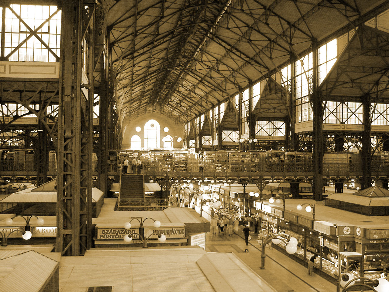 Central market hall, Budapest